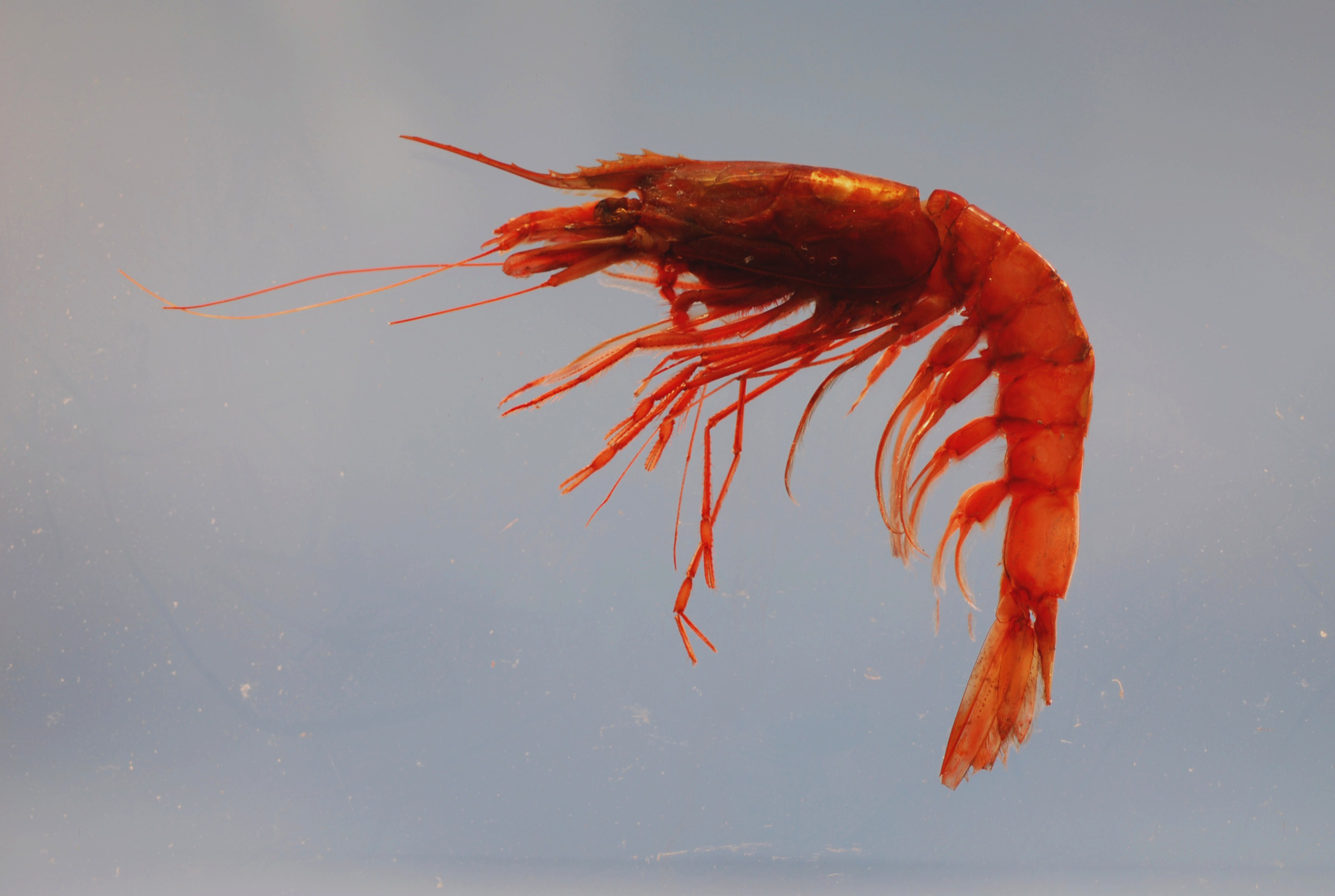 Giant red shrimp ( Aristaeomorpha foliacea ). Gulf of Mexico.